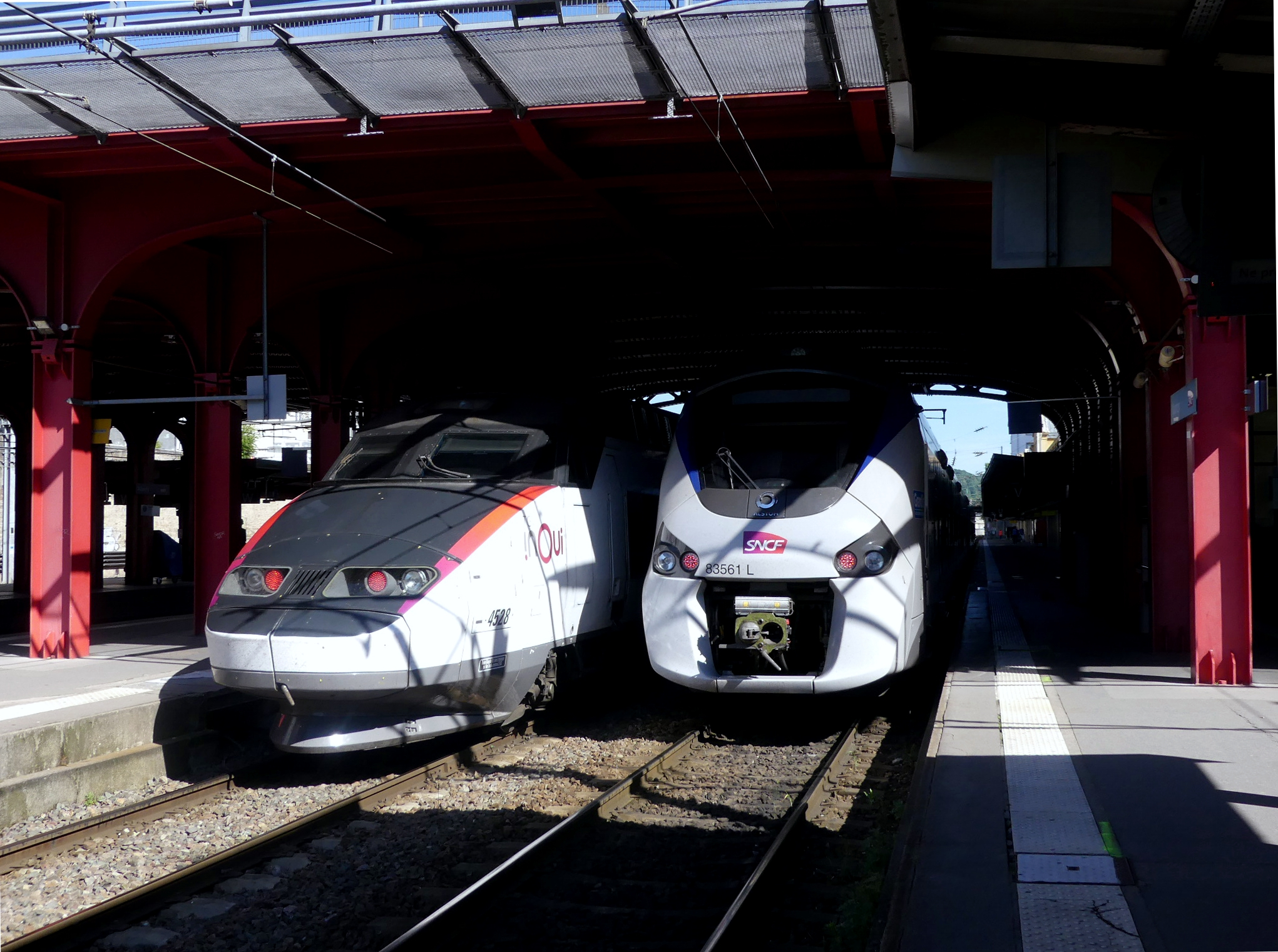 Sight of a French SNCF TGV n° 2537 bound for Paris and a regional train stopped at Nancy-Ville railway station, in Meurthe-et-Moselle, France.